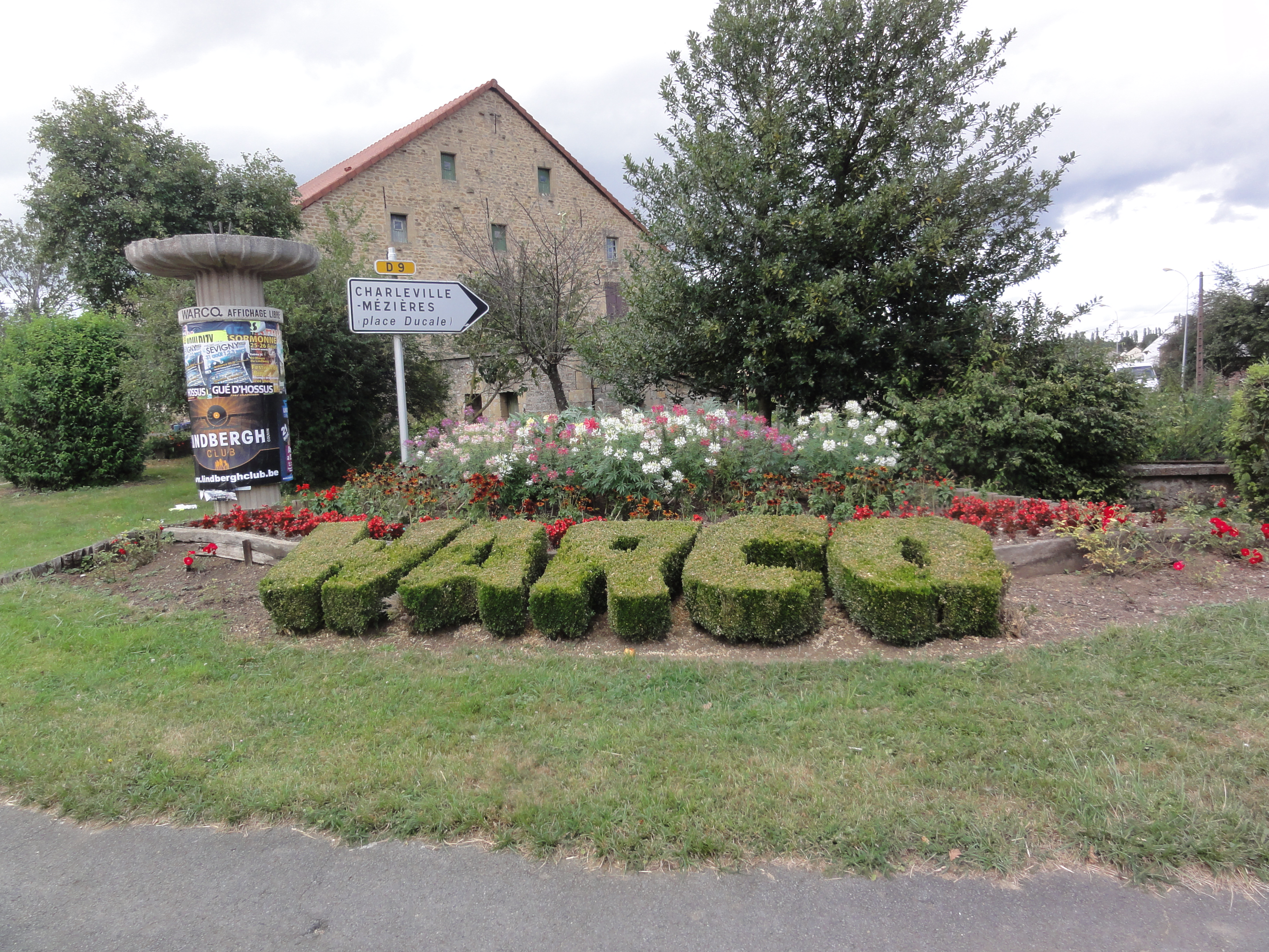 Warcq (Ardennes) nom en verdure